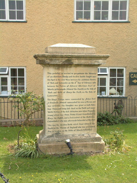 Memorial to the Battle of Mortimer Cross A battle during the Wars of Roses. 2nd Feb 1461. Erected in 1799.